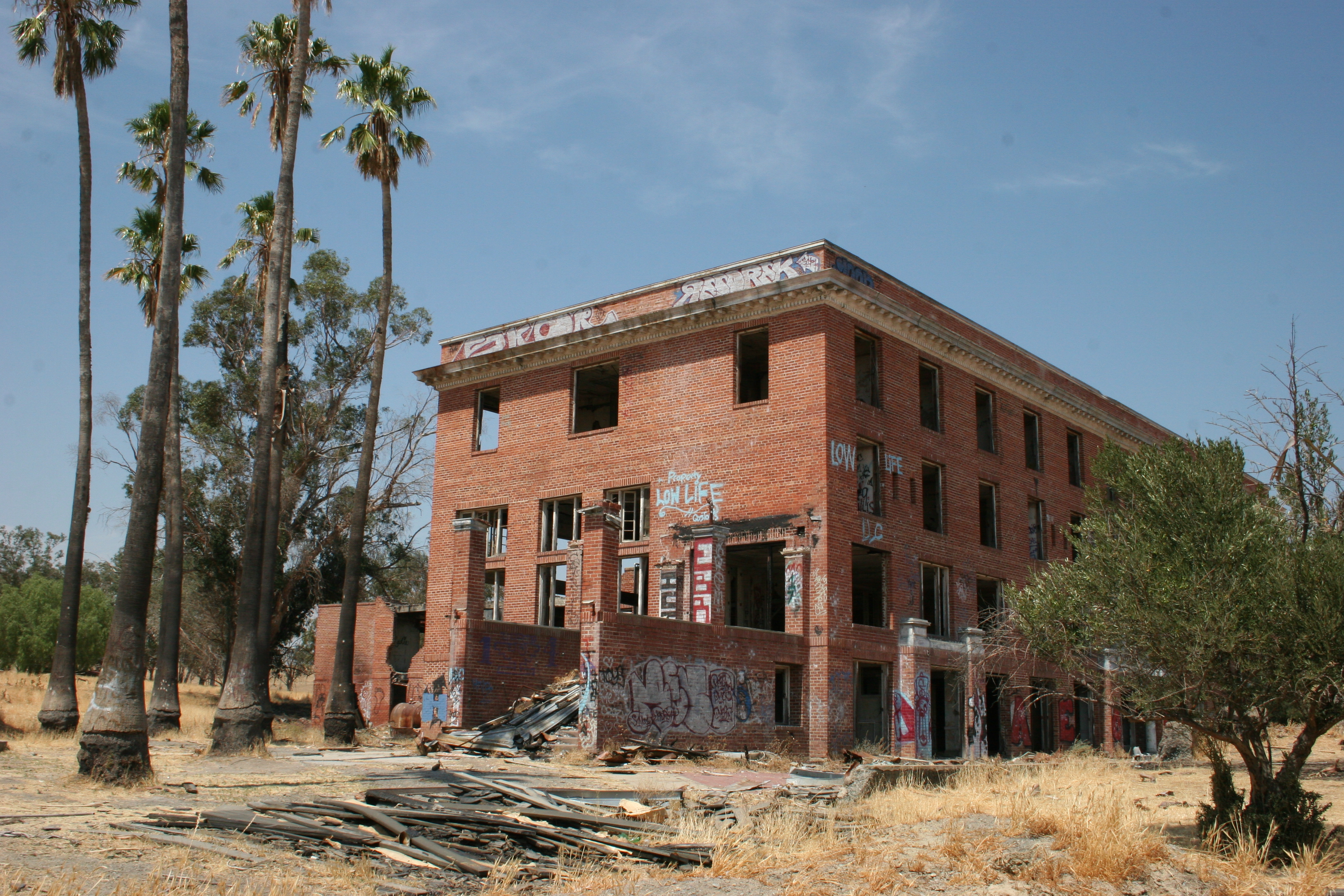 Byron Hot Springs Hotel, August 2008. This Hotel was part of a Resort frequented by Hollywood-stars and top athletes. Later it became Camp Tracy, a interrogation facility in WWII.